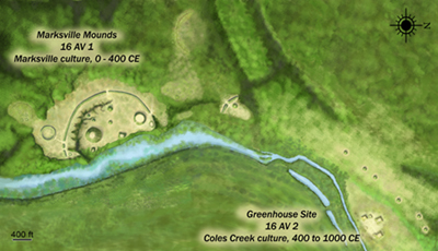 The Marksville Mounds site, 16 AV 1, built by the Marksville culture, 0 - 400 CE. Lower right is the Greenhouse Site,16 AV 2, built by the Troyville and Coles Creek cultures, 400 to 1000 CE. All rights held by the artist, Herb Roe © 2017.